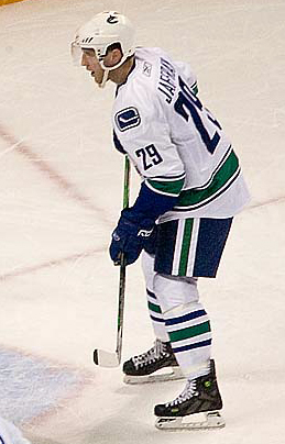 Vancouver Canucks forward Jason Jaffray in 2007.